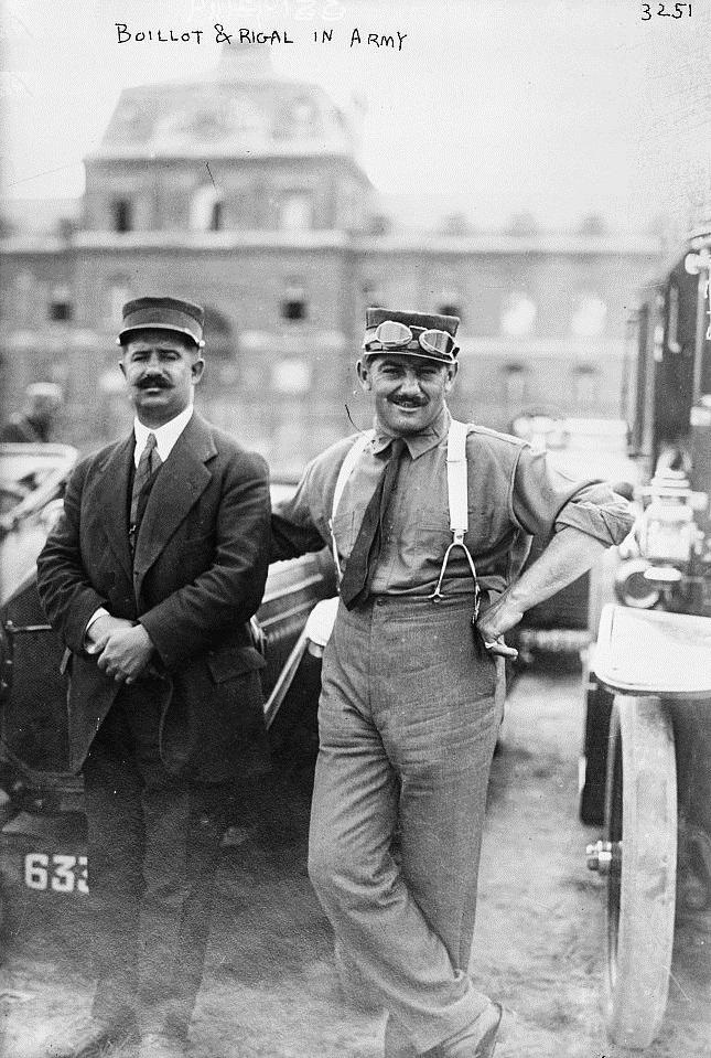 Georges Boillot and Victor Rigal in Army in 1914 Bain News Service,, publisher. Baoillot and Rigal in Army [between ca. 1910 and ca. 1915] 1 negative : glass ; 5 x 7 in. or smaller. Notes: Title from unverified data provided by the Bain News Service on the negatives or caption cards. Forms part of: George Grantham Bain Collection (Library of Congress). Format: Glass negatives. Repository: Library of Congress, Prints and Photographs Division, Washington, D.C. 20540 USA, General information about the Bain Collection is available at Persistent URL: Call Number: LC-B2- 3251-8